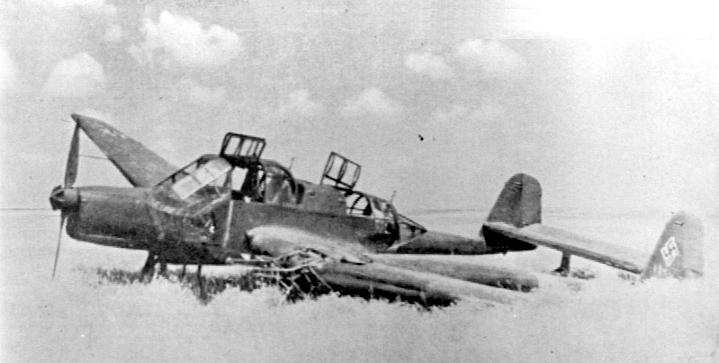 Fw 189A used by Rumanian ground attack students as transition tool from single-engine to twin-engine airplanes. Eastern Front, Kirovograd, Summer of 1943.